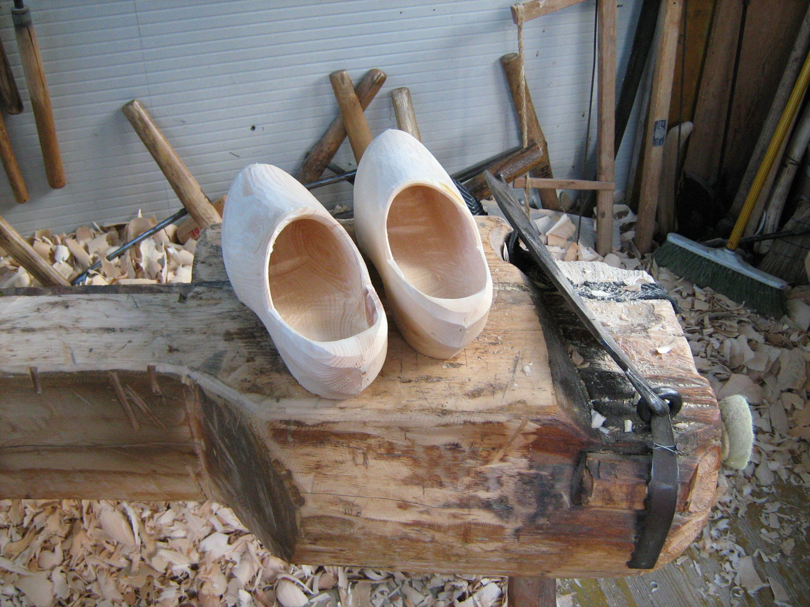 Sabot shoes were used in the past in Aosta Valley (Italy)